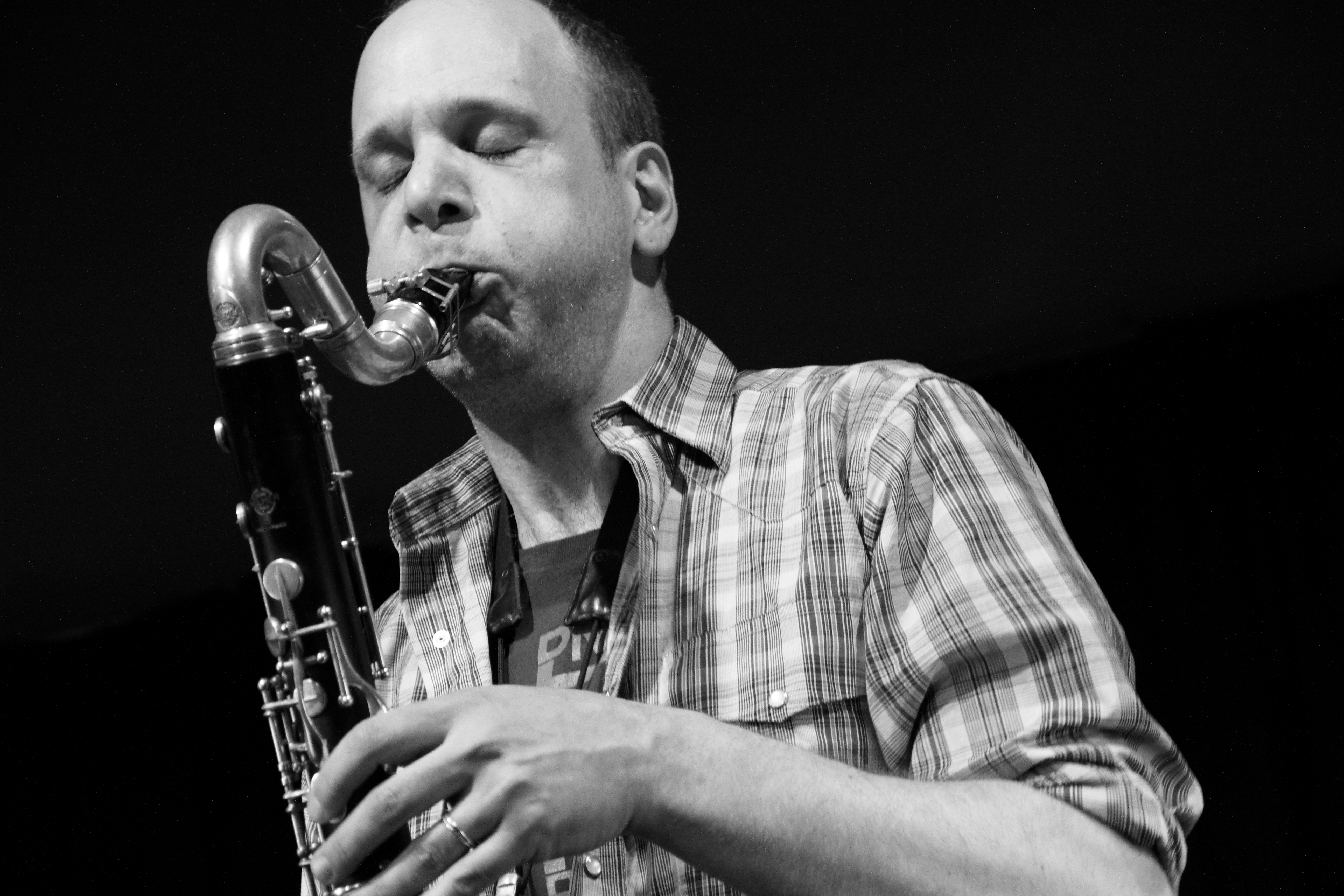 The Nate Wooley Quintet in concert at Club W71, Weikersheim..